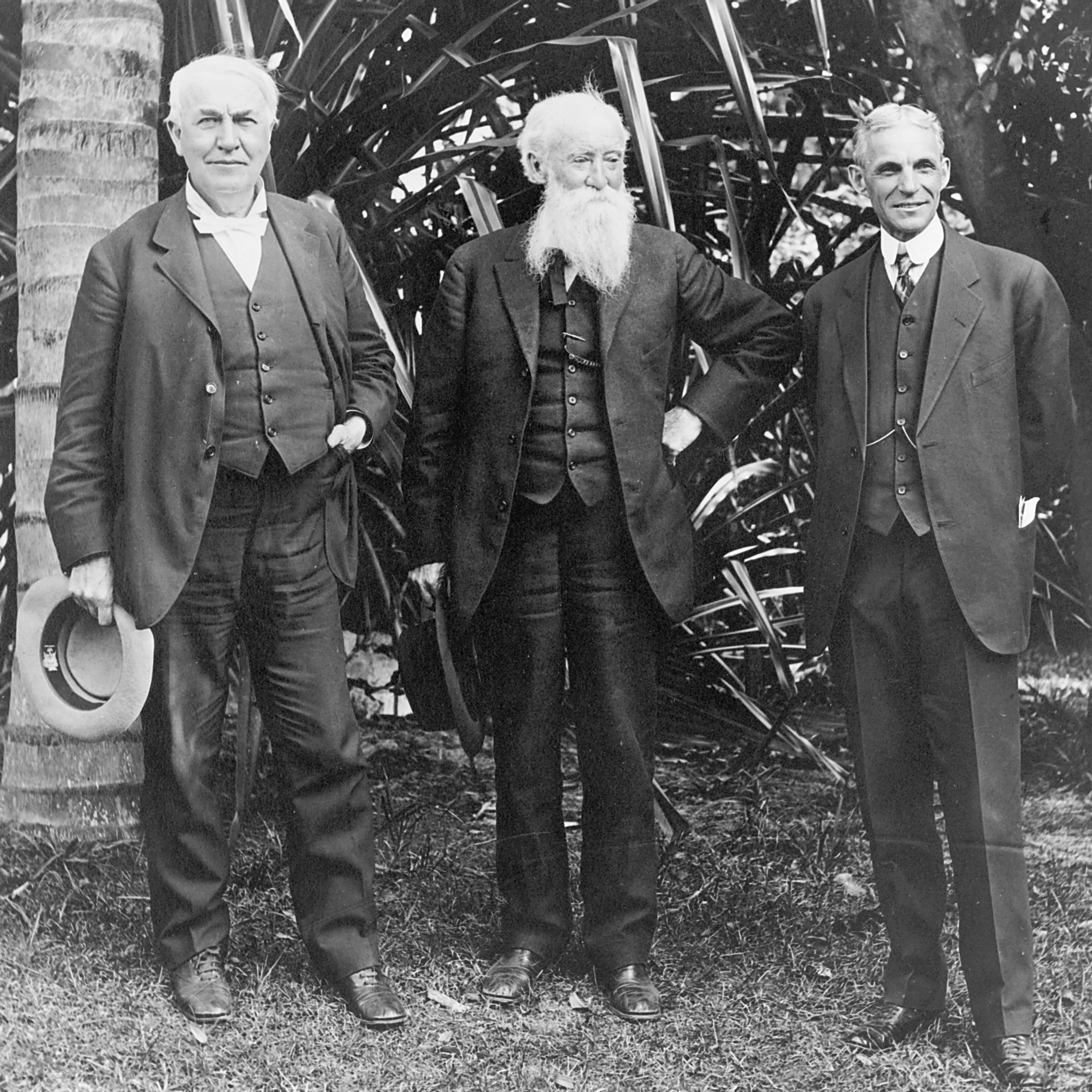 Thomas Edison, John Burroughs, and Henry Ford, full-length portrait, standing, facing front, at Edison's home in Ft. Myers, Florida